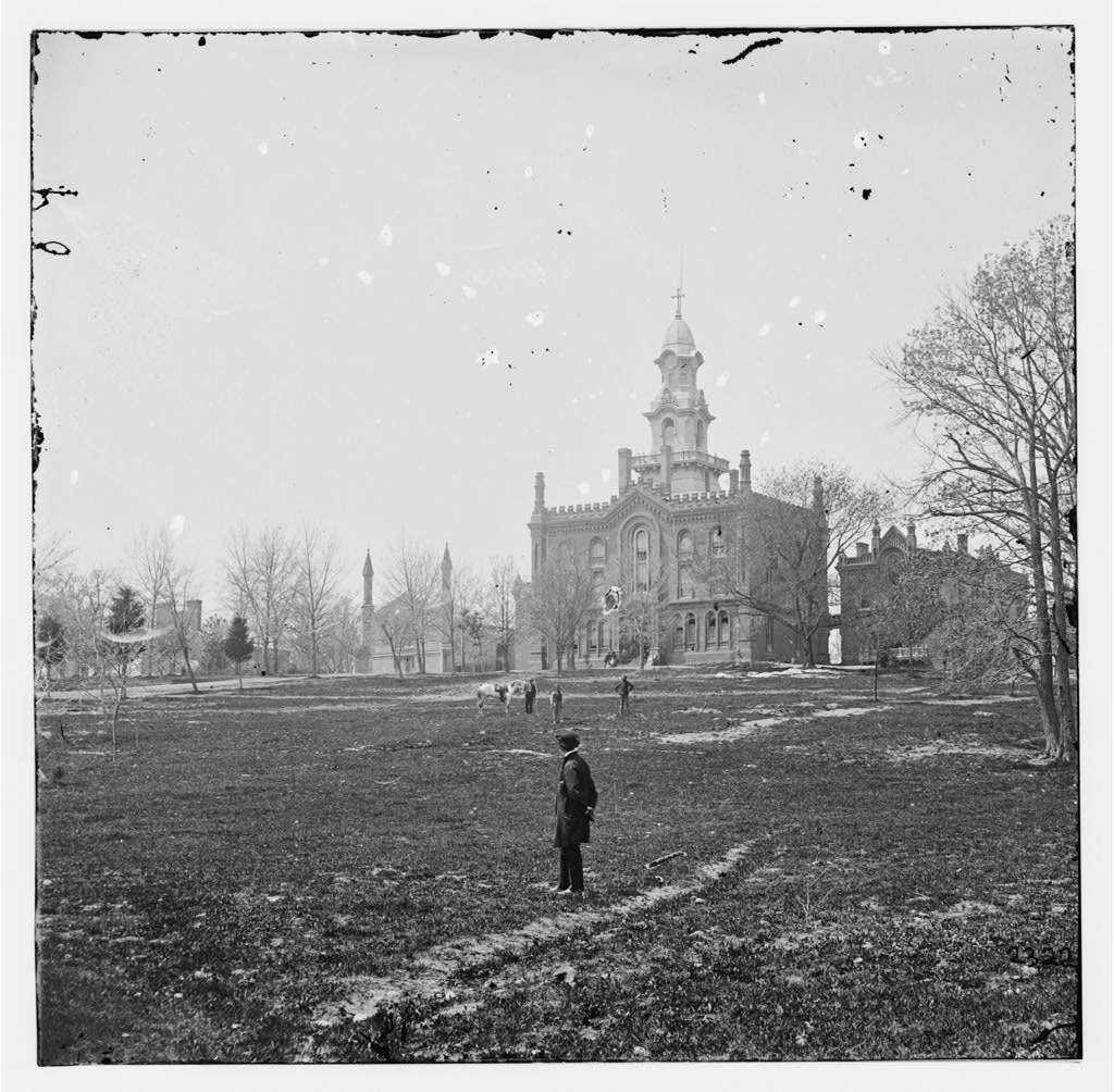 Virginia Theological Seminary, between 1861 and 1869